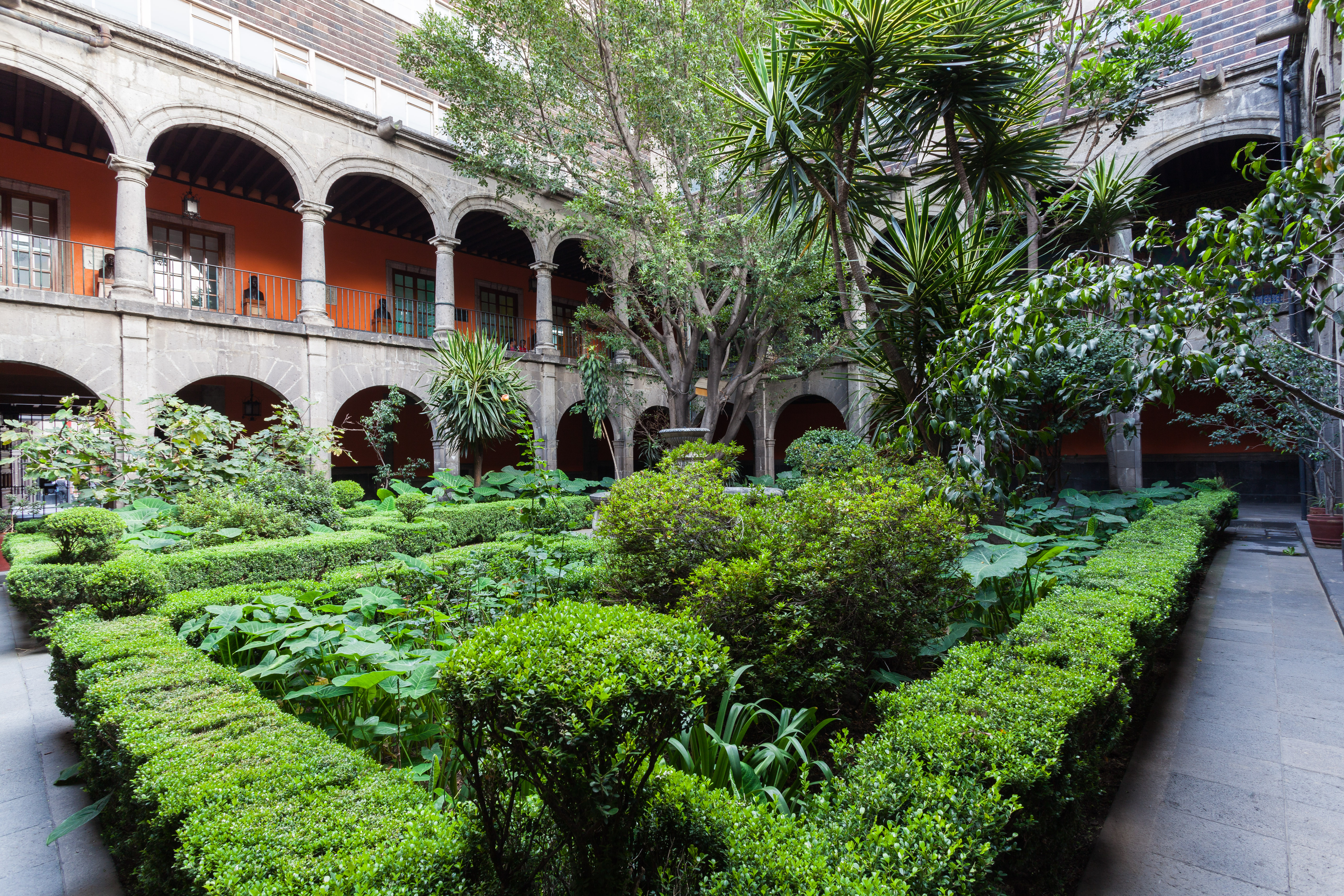 Hospital of Jesus of Nazareth, Mexico City, Mexico